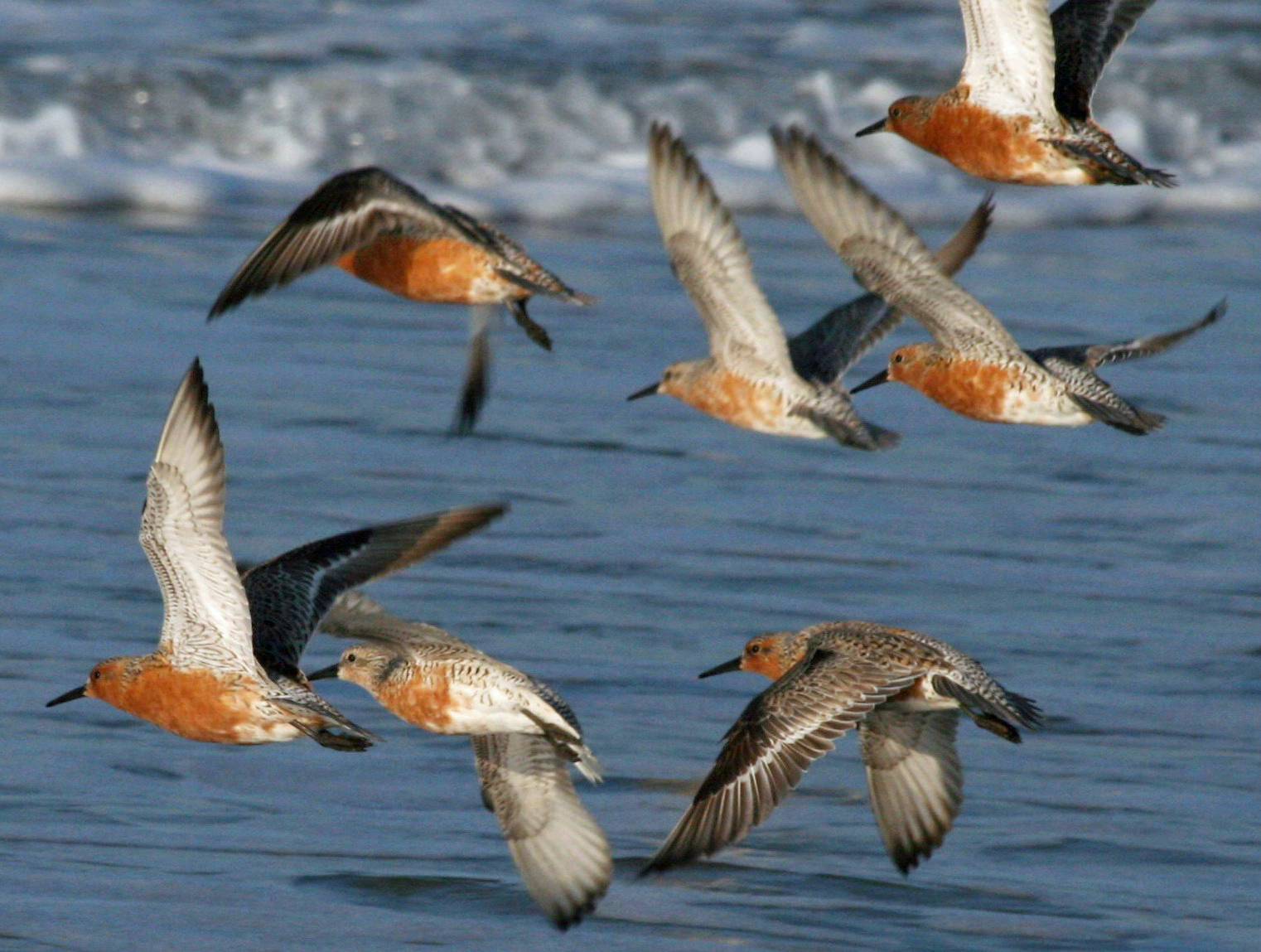 Red Knot (Calidris canutus)